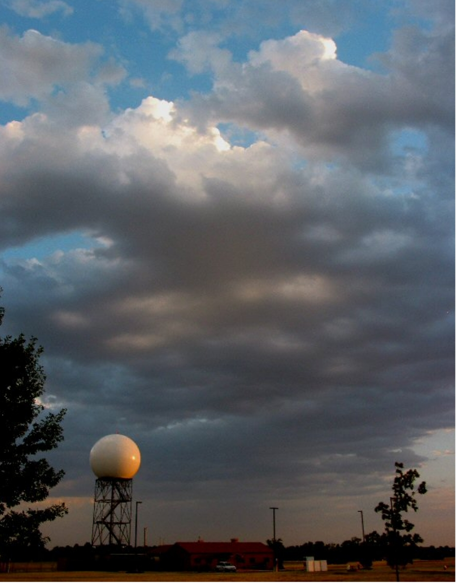 Castellanus sprouting from a layer of cloud produced by forced ascent above an expanding thunderstorm outflow. Norman, OK, 2005 CDT 6 August 2006, looking south southwest.